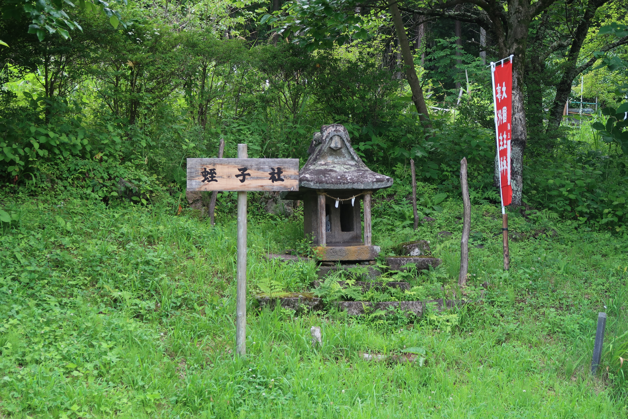 諏訪大社上社摂社・蛭子社（武居会美酒社）（諏訪市中洲神宮寺）